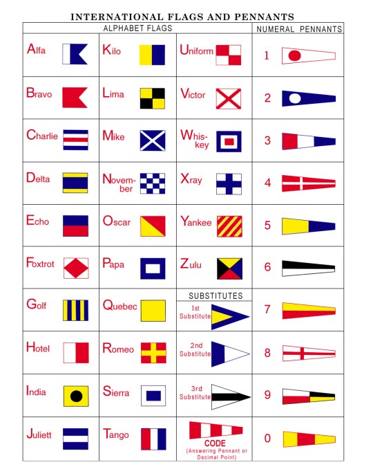 Standard chart of "International Flags and Pennants" of the International Code of Signals (also known as "Pub. 102"), widely replicated in many publications.